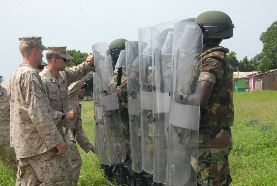 U.S. Marine Corps military policemen with the 4th Law Enforcement Battalion show members of the Ghana Army 2nd Engineer Battalion how to use riot shields during nonlethal training June 20, 2013, in Accra, Ghana, as part of exercise Western Accord 2013. Western Accord is a U.S. Africa Command-sponsored, Marine Forces Africa-led multilateral field exercise and humanitarian mission in Senegal designed to increase interoperability between the United States and several West African partner nations.